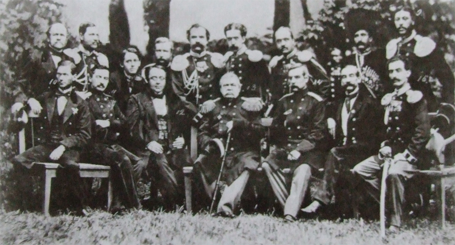 Mikhail Nikolayevich Muravyov (center siting).